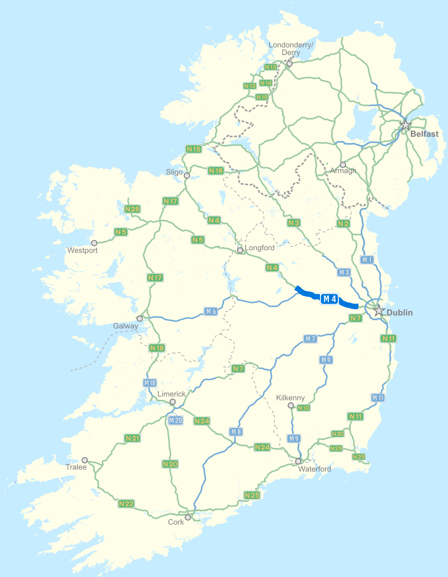 Map of M4 motorway (Ireland) with M4 blue bolded, Nxx routes in green and Mxx routes in blue